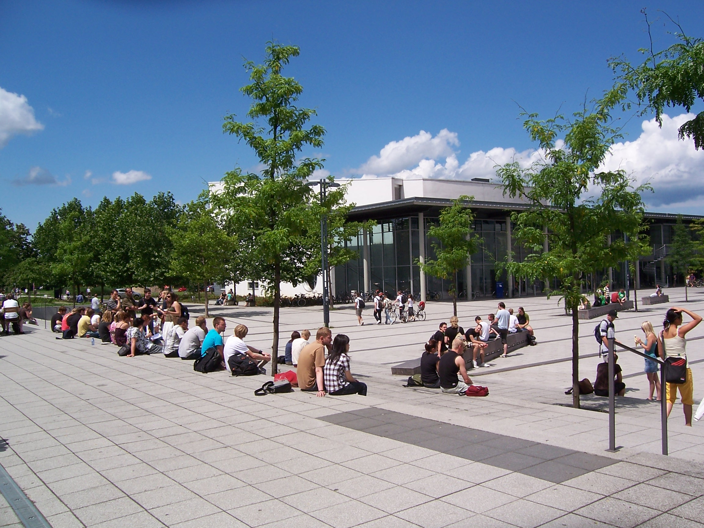 The central forum on campus of the Brandenburg Technical University in Cottbus.